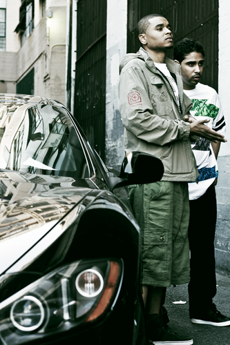 Smitty & D for Track Bangas